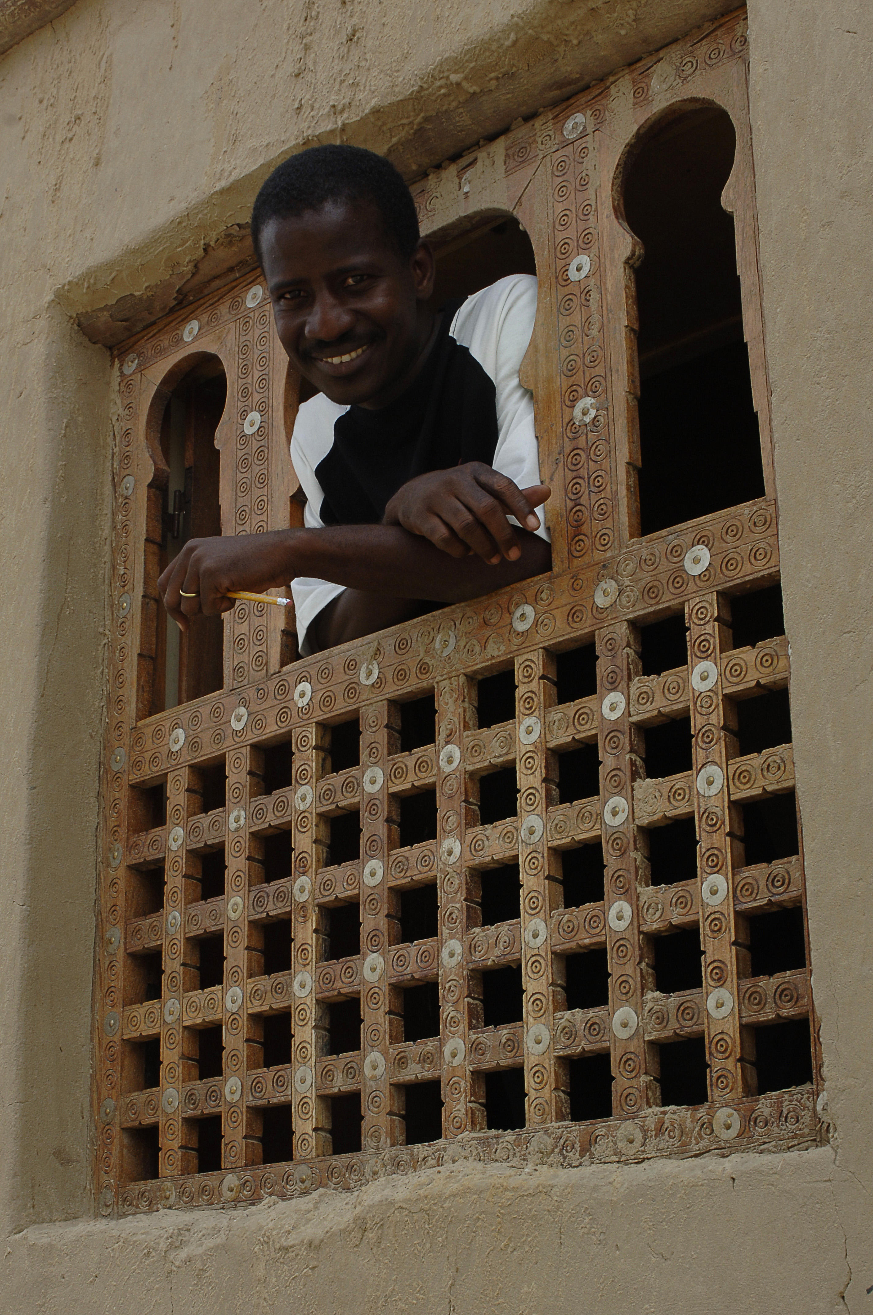 070904-F-4406B-320 A local resident of Tombouctou, Mali, looks out of his window Sept. 4, 2007. Mali is the location of exercise Flintlock 2007. The exercise, which is meant to foster relationships of peace, security and cooperation among the Trans-Sahara nations, is part of the Trans-Sahara Counterterrorism Partnership. The TSCTP is an integrated, multi-agency effort of the U.S. State Department, U.S. Agency for International Development and the U.S. Defense Department. (U.S. Air Force photo by Master Sgt. Ken Bergmann) (Released) Photographer's Name: MASTER SGT. KEN BERGMANNLocation: Tombouctou Date Shot: 9/4/2007Date Posted: unknownVIRIN: 070904-F-4406B-320